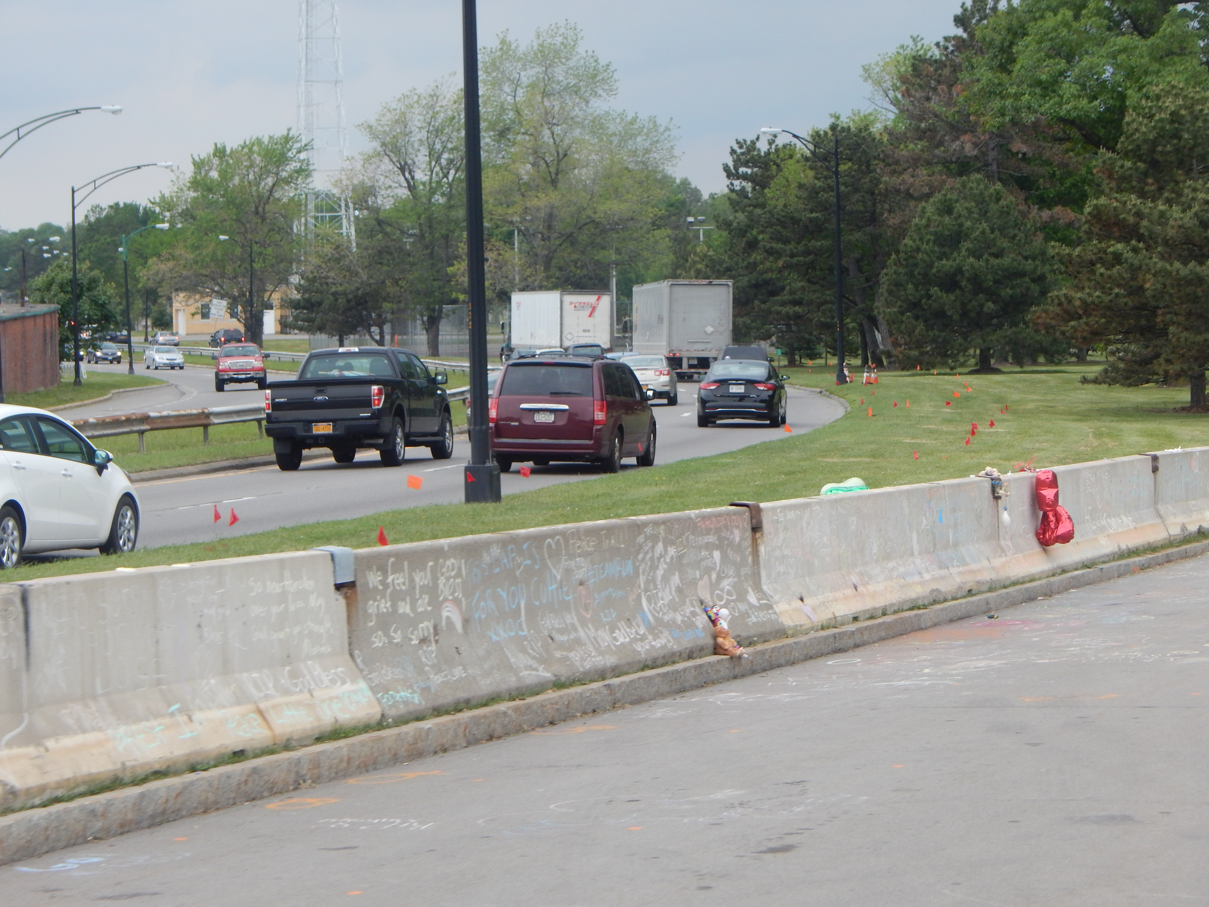 NY 198 in June 2015 with the memorial of Maksym Sugorovskiy on the barrier.